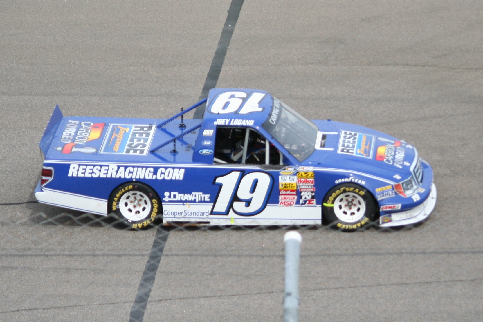 Joey Logano drives the No. 19 Reese Towpower Ford for Brad Keselowski Racing during the North Carolina Education Lottery 200 at Rockingham Speedway, Rockingham, NC, April 14, 2013